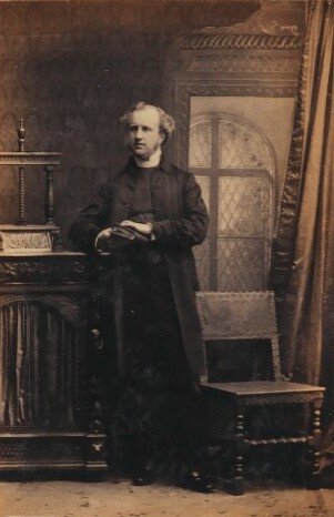 Portrait of Henry Bond Bowlby (1823–1894), English cleric.